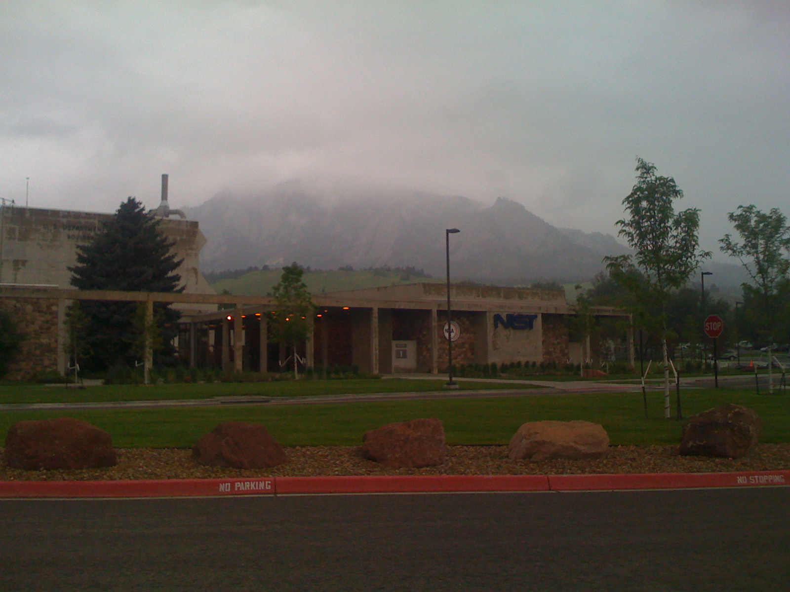 National Institute of Standards and Technology (NIST) Boulder Laboratories in Colorado, USA